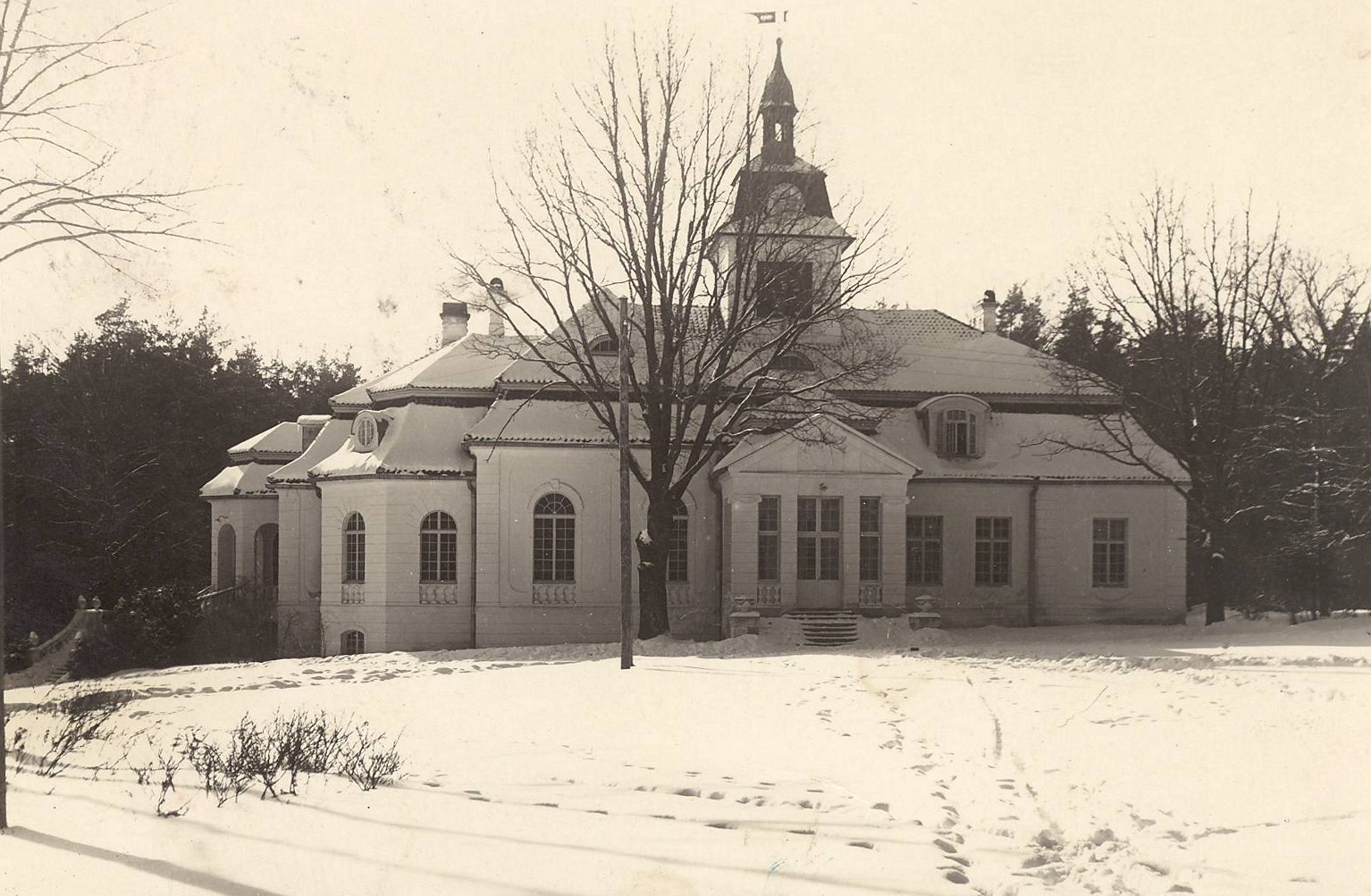 Taheva manor main building (built in 1907)